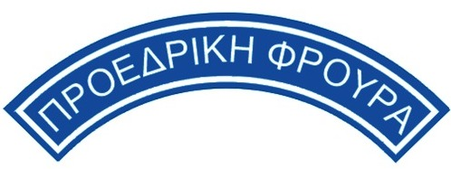 Patch of the uniform of the Presidential Guard of Greece